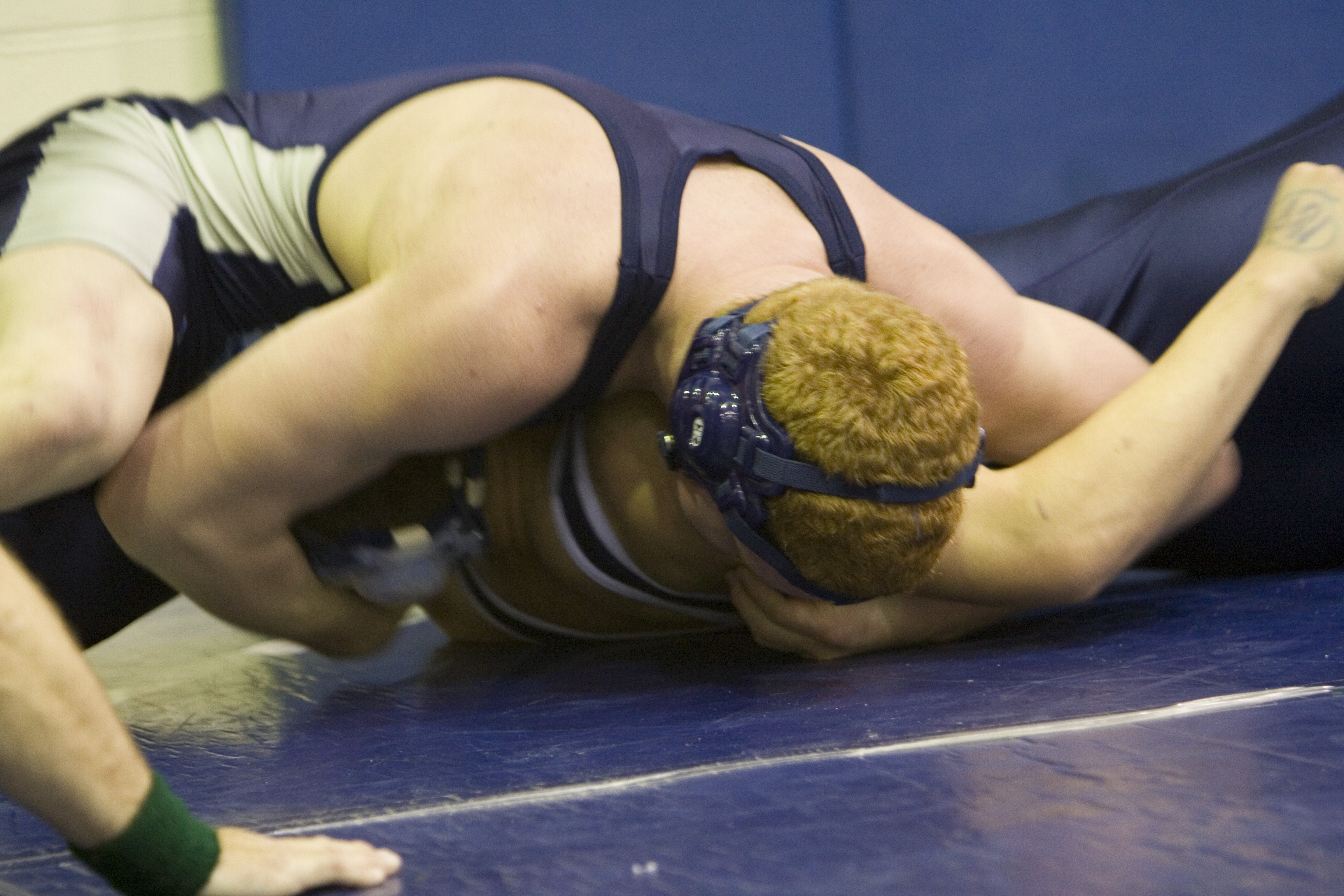 Two high school students wrestling (collegiate, scholastic, or folkstyle) in the United States. Originally uploaded by Wikiman86 on the English Wikipedia project at